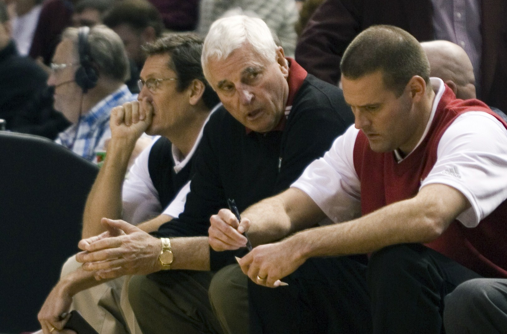 Bobby Knight (en), coach of the Texas Tech Red Raiders